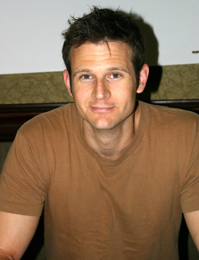 Cleveland Slayercon April 2004 - George Hertzberg